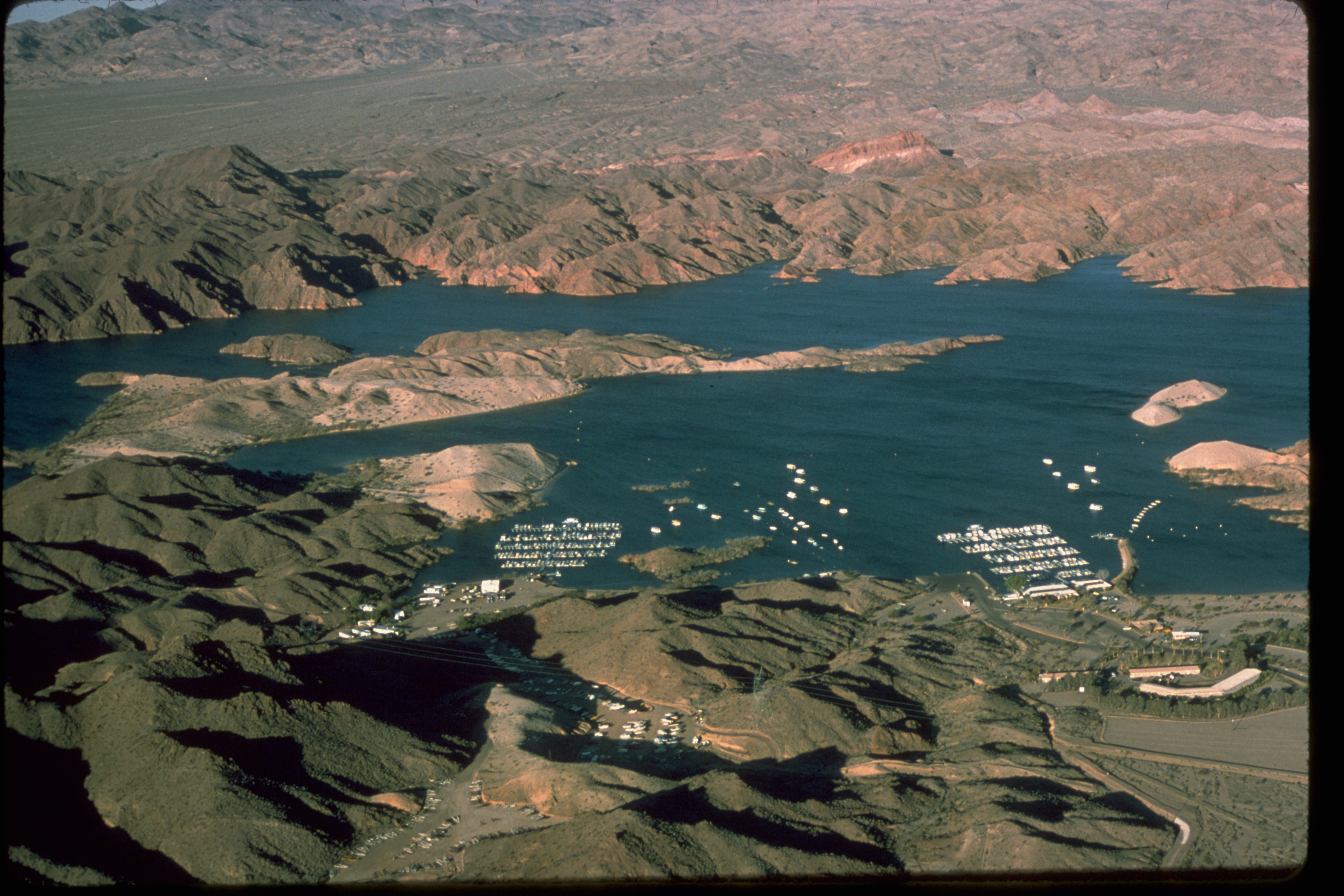 Lake Mead National Recreation Area offers a wealth of things to do and places to go year-round. Its huge lakes cater to boaters, swimmers, sunbathers, and fishermen while its desert rewards hikers, wildlife photographers, and roadside sightseers. It is also home to thousands of desert plants and animals, adapted to survive in an extreme place where rain is scarce and temperatures soar.